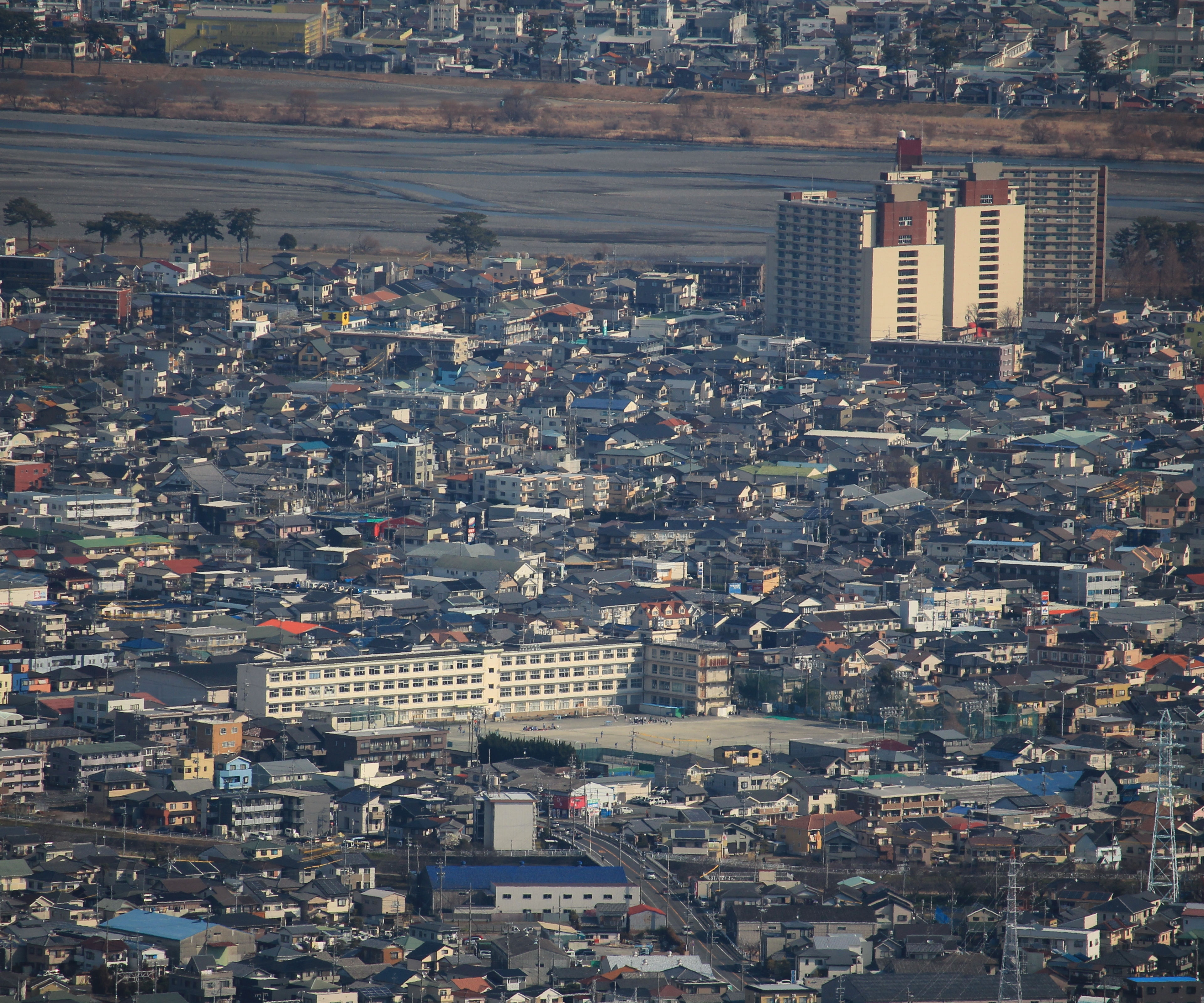 Osadaminami Junior high school seen from Mount Hanazawa in Suruga-ku, Shizuoka city, Shizuoka prefecture, Japan.